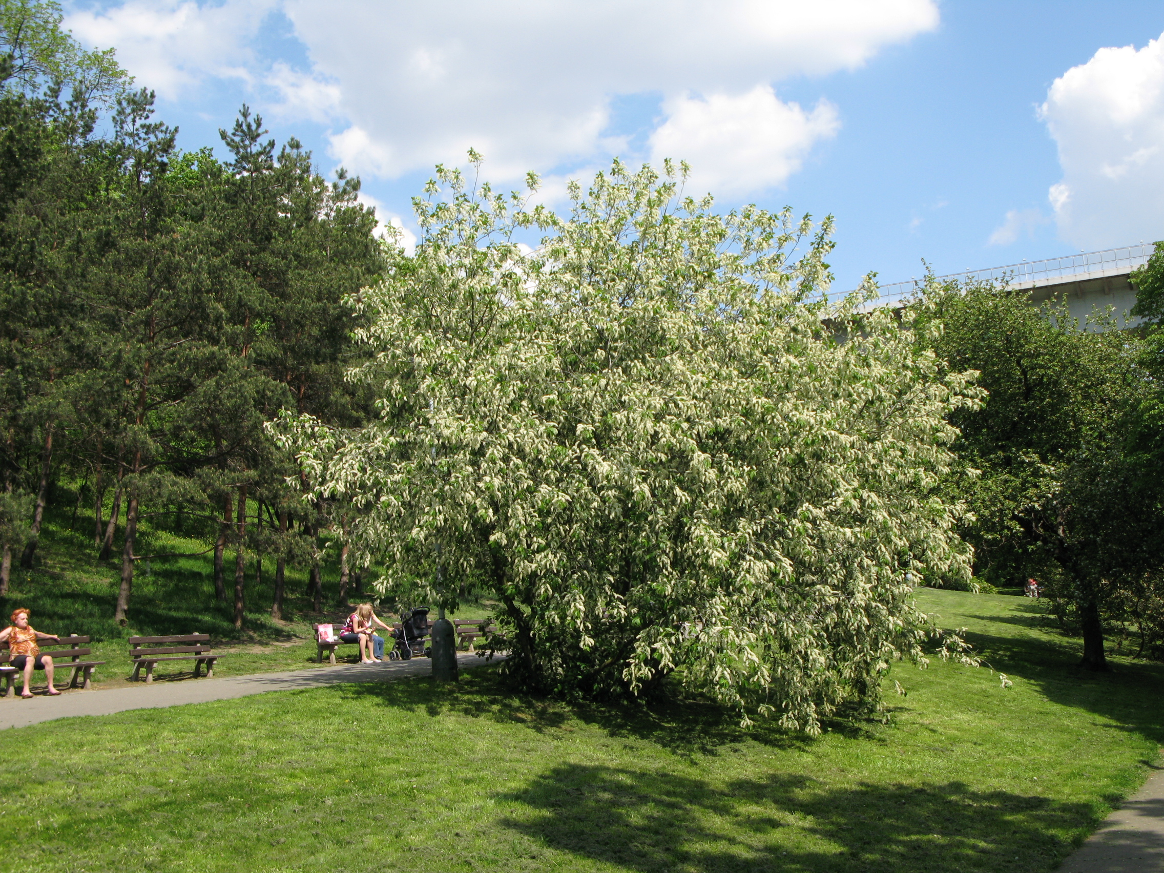 Flowering Prunus padus in Bloom Clock at